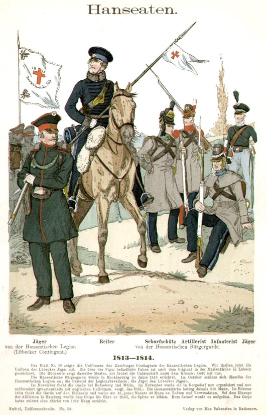 Hanseaten. Lübecker Kontingent der Hanseatischen Legion und Haseatische Bürgergarde. 1813-14